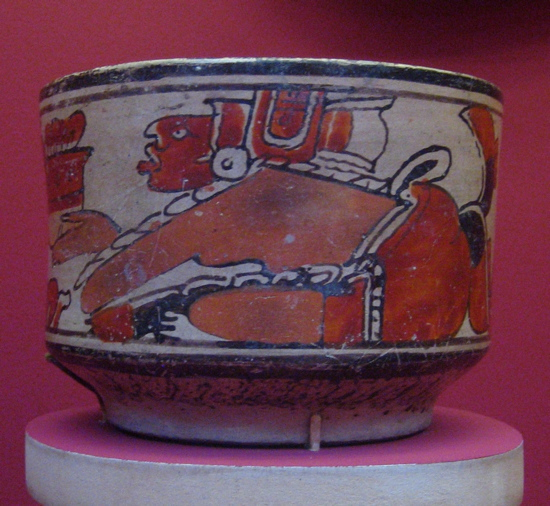 Guatemala Highlands, Maya Bowl with Images of Humans with Bundled Offerings, A.D. 600-900 Ceramic, Slip-painted ceramic, Height: 6 in. (15.24 cm) Gift of the Art Museum Council in honor of the museum’s twenty-fifth anniversary (M.90.168.10) Wikipedia Loves Art at the Los Angeles County Museum of Art This photo of item # M.90.168.10 at the Los Angeles County Museum of Art was contributed under the team name "artifacts" as part of the Wikipedia Loves Art project in February 2009. Los Angeles County Museum of Art The original photograph on Flickr was taken by Beesnest McClain—please add a comment to the original Flickr page whenever a use has been made on Wikipedia or another project. Project galleries on Flickr: this institution, this team